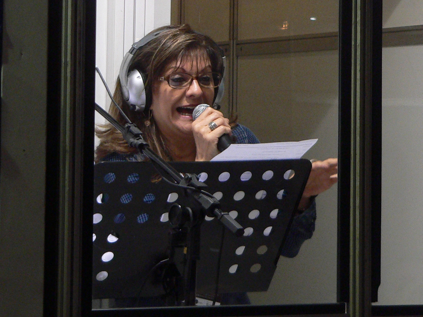 Brazilian voice actress Cecília Lemes at the 2014 Comic Con Experience (CCXP) in São Paulo, Brazil.